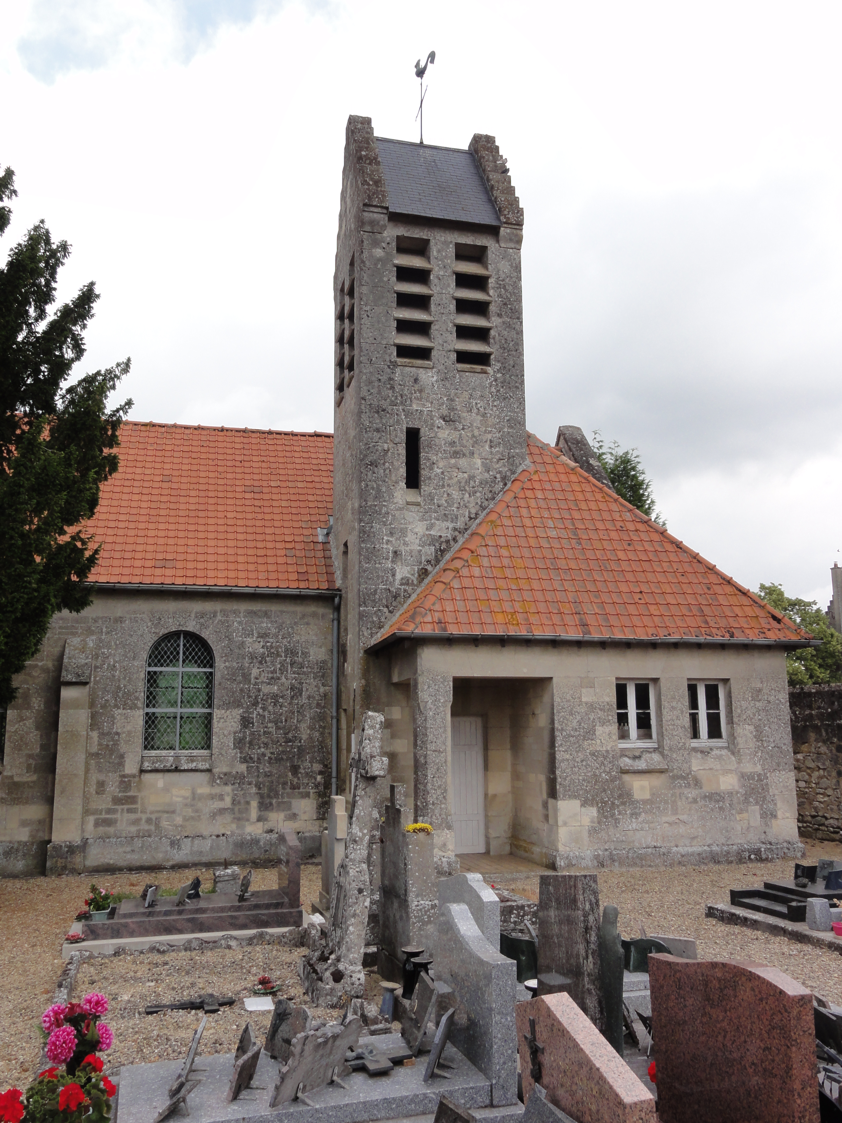 Missy-aux-Bois (Aisne) église